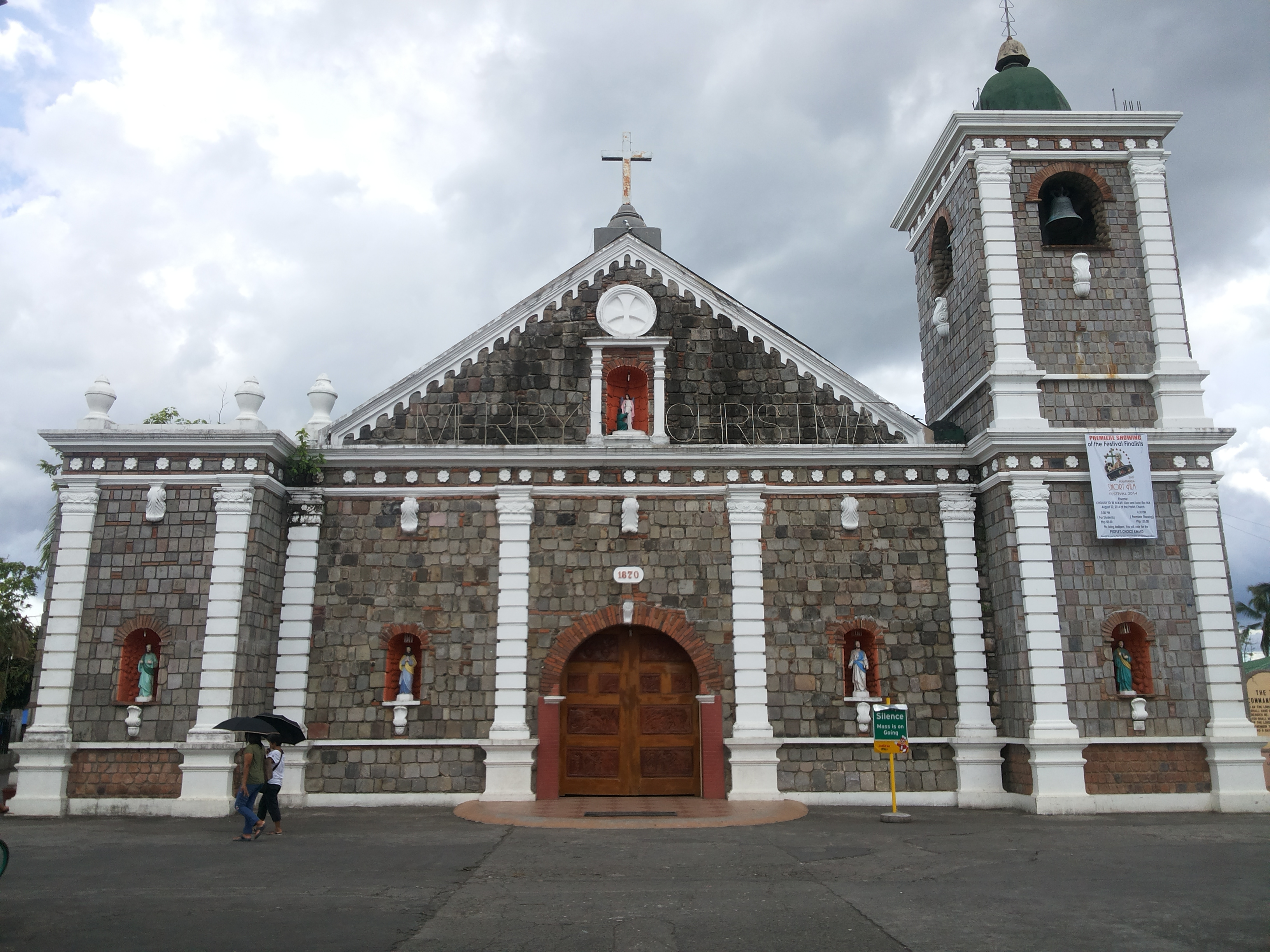 St. Raphael the Archangel Church of Pili, Camarines Sur